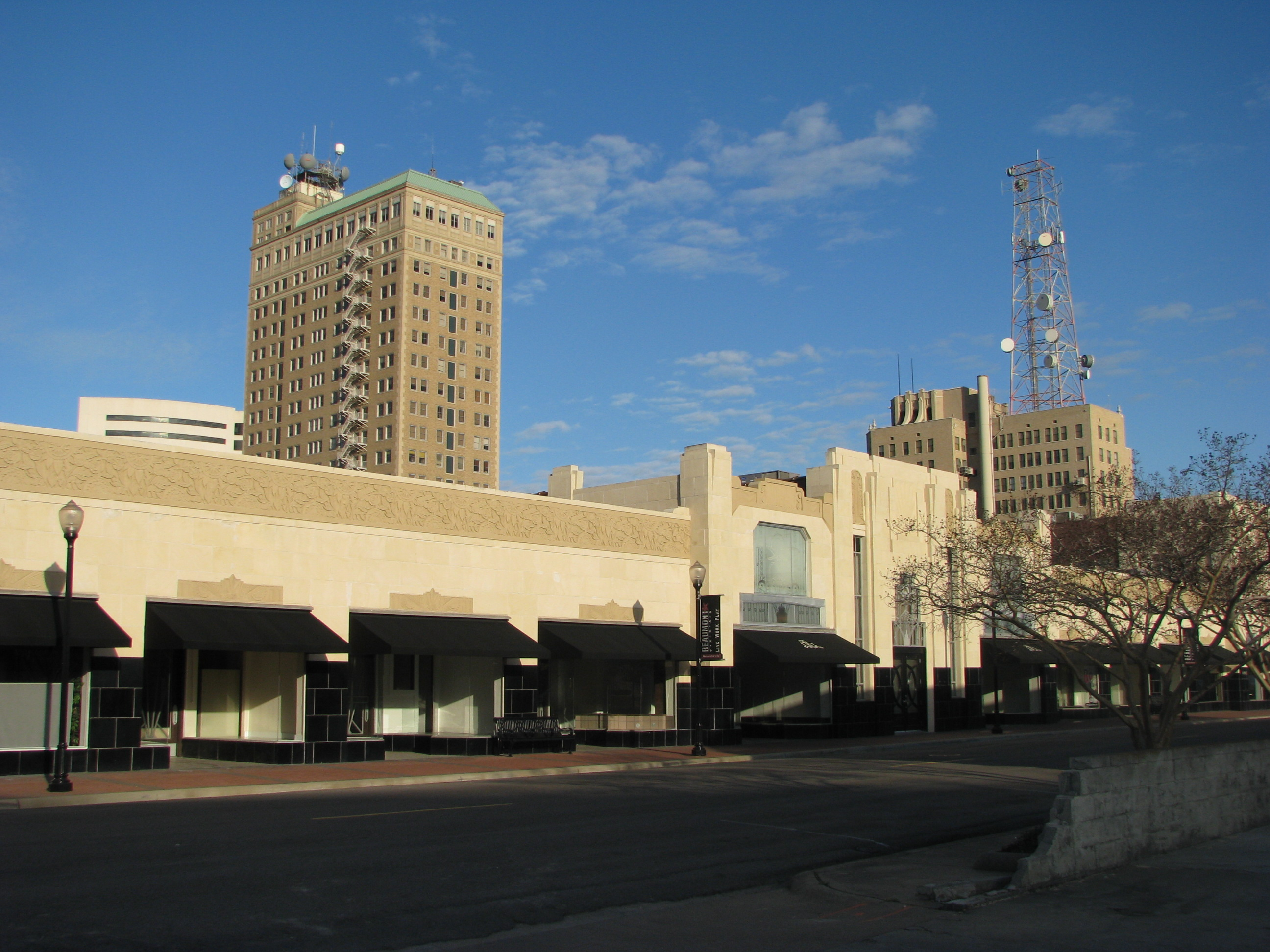 Kyle Block, Beaumont, Texas